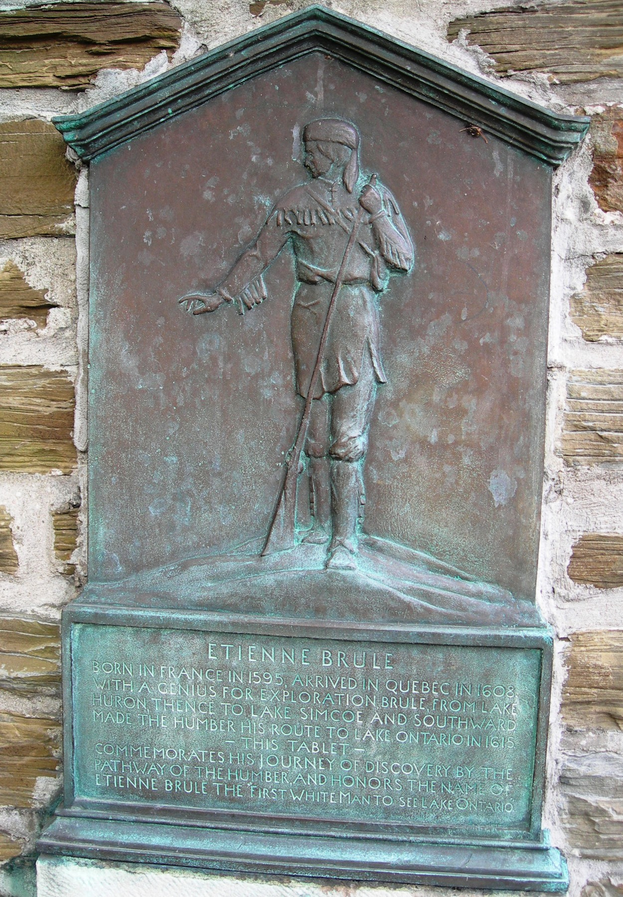 Photograph of a plaque of Étienne Brûlé at The Old Mill Inn in Old Mill, Toronto